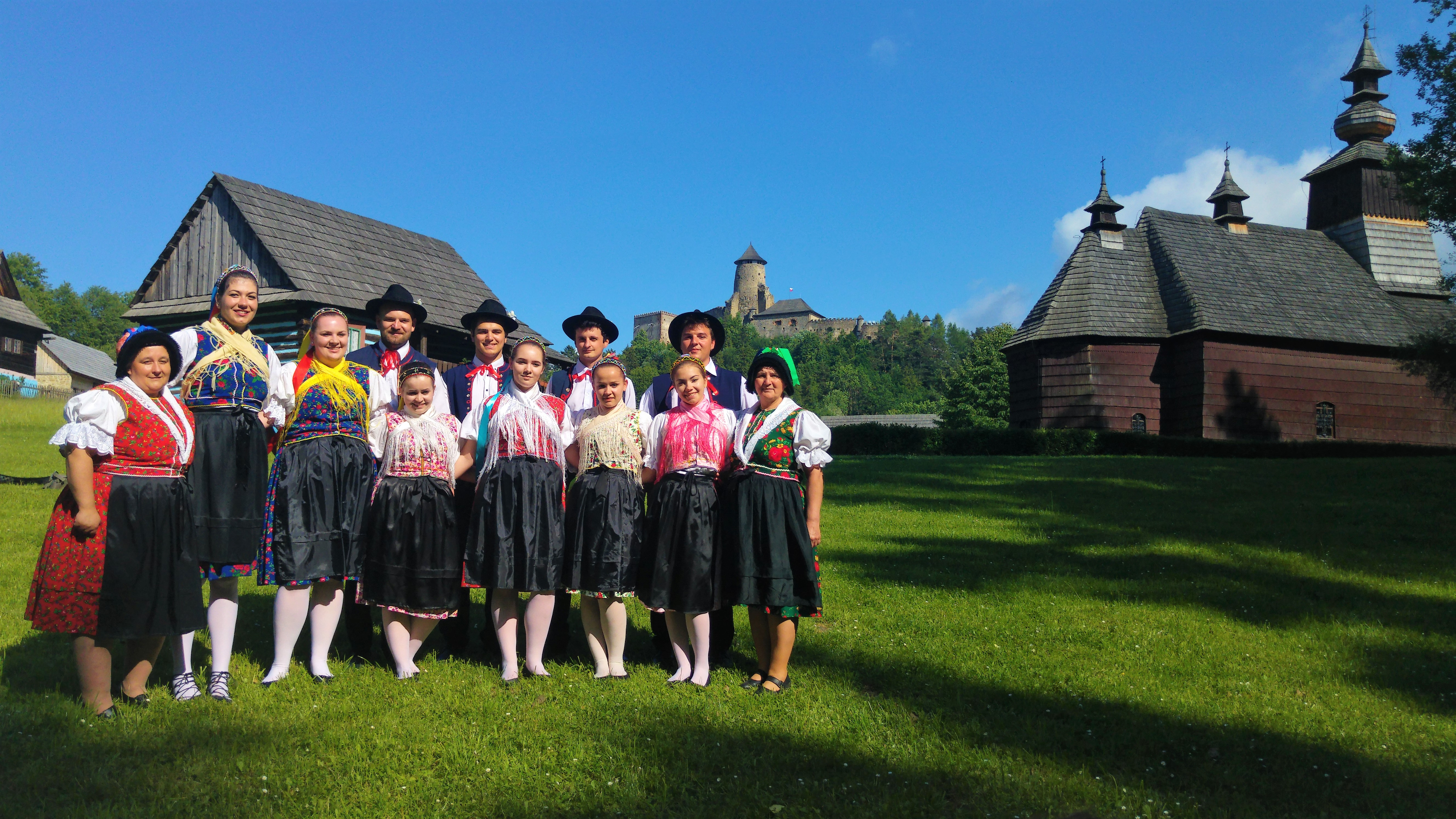 Folk group 'Marmon' from Stará Ľubovňa. Photo taken in local open-air museum.